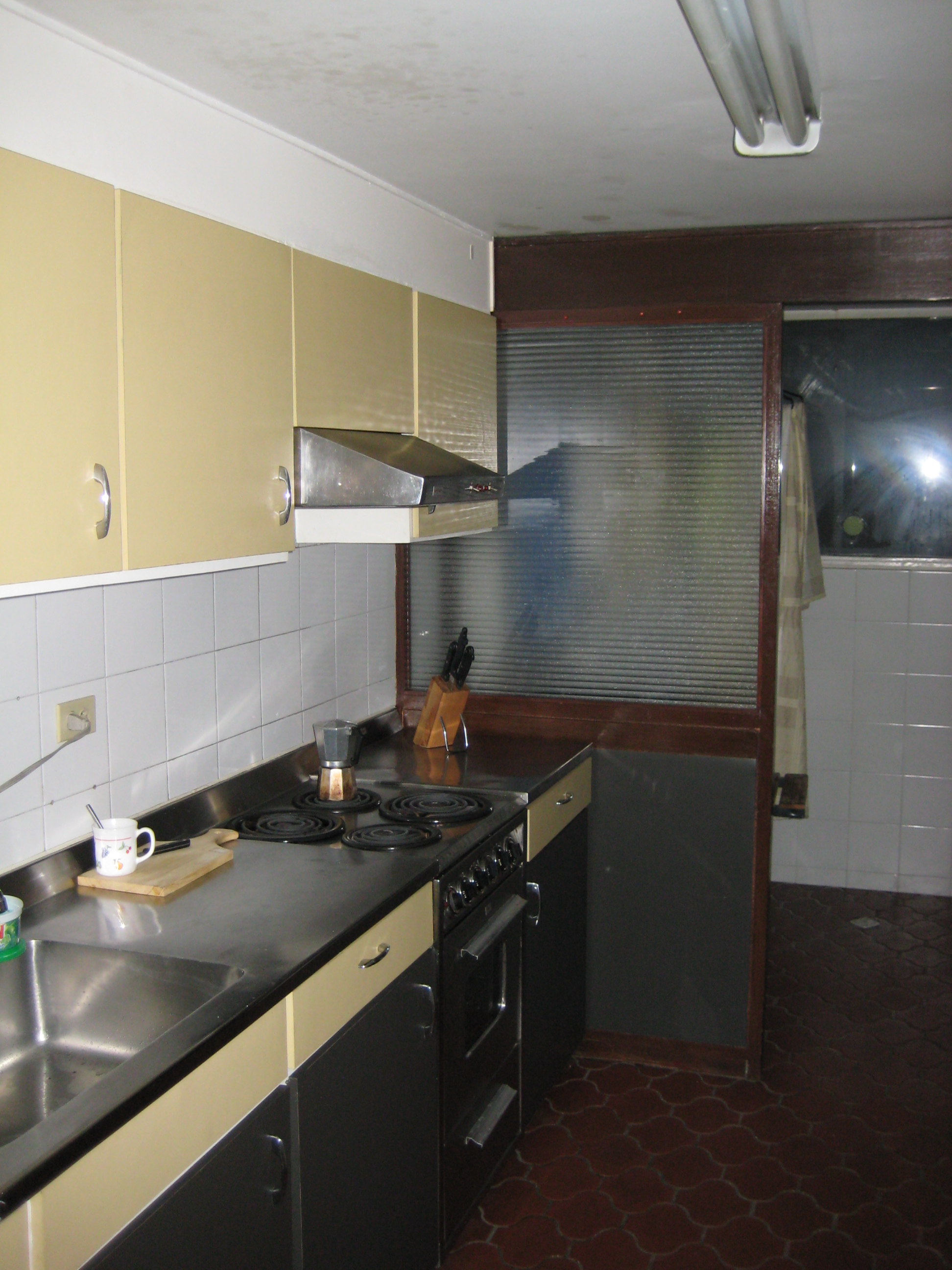 Colombian Kitchen